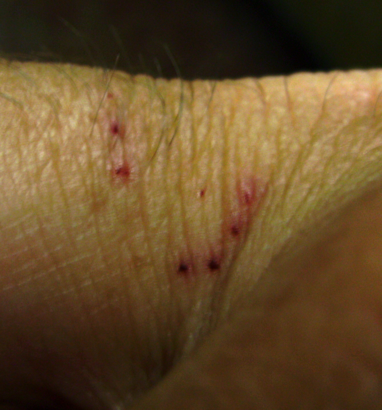 An snake bite on a finger (Malpolon monspessulanus), Castelltallat Catalonia